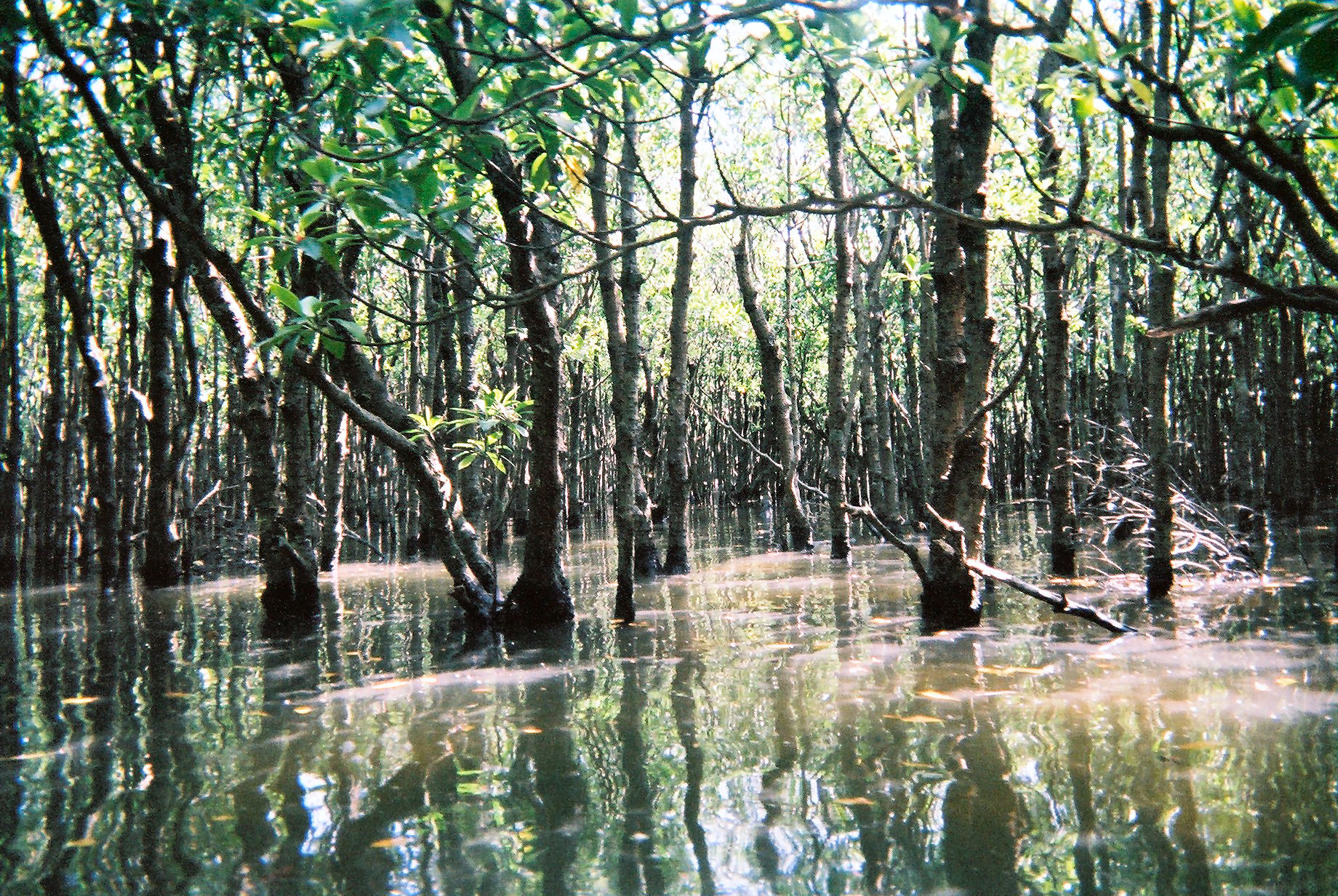 Mangrove. Iriomote island (西表島) Japan August 2007.